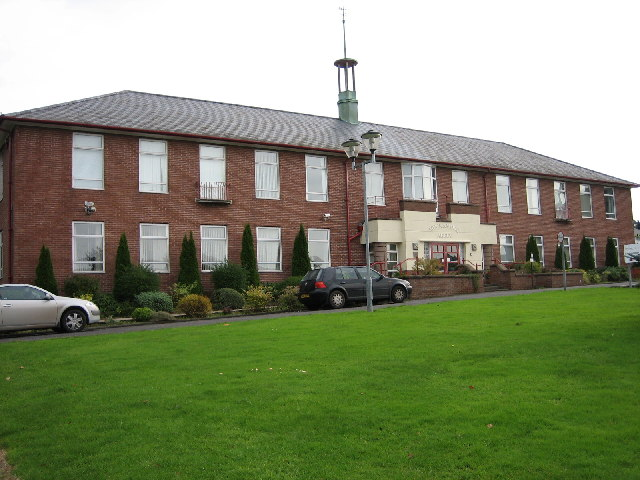 Muckamore Abbey Hospital. This is the Administration and Reception Block for the Hospital.